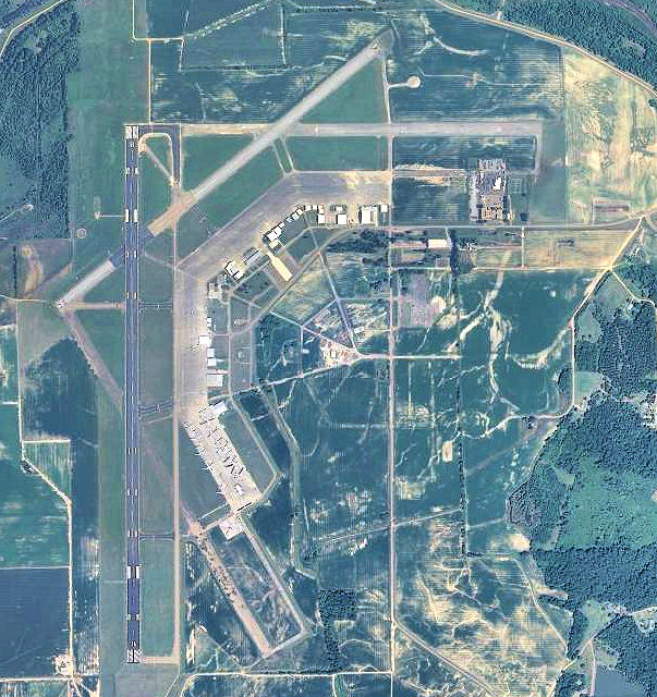 USGS digital orthophoto of Greenwood-Leflore Airport in Mississippi